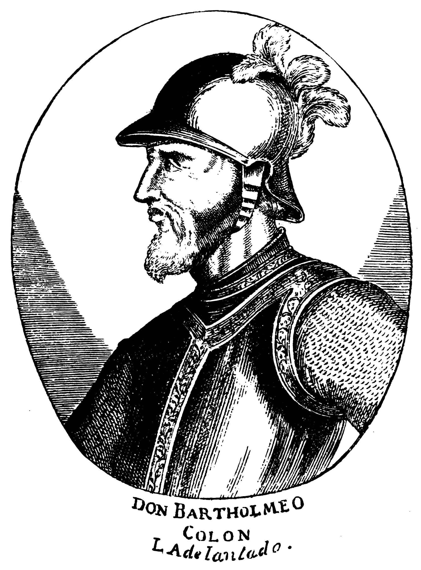 Scan from "Narrative and critical history of America, Volume 2" by Justin Winsor. Scans for whole book are at